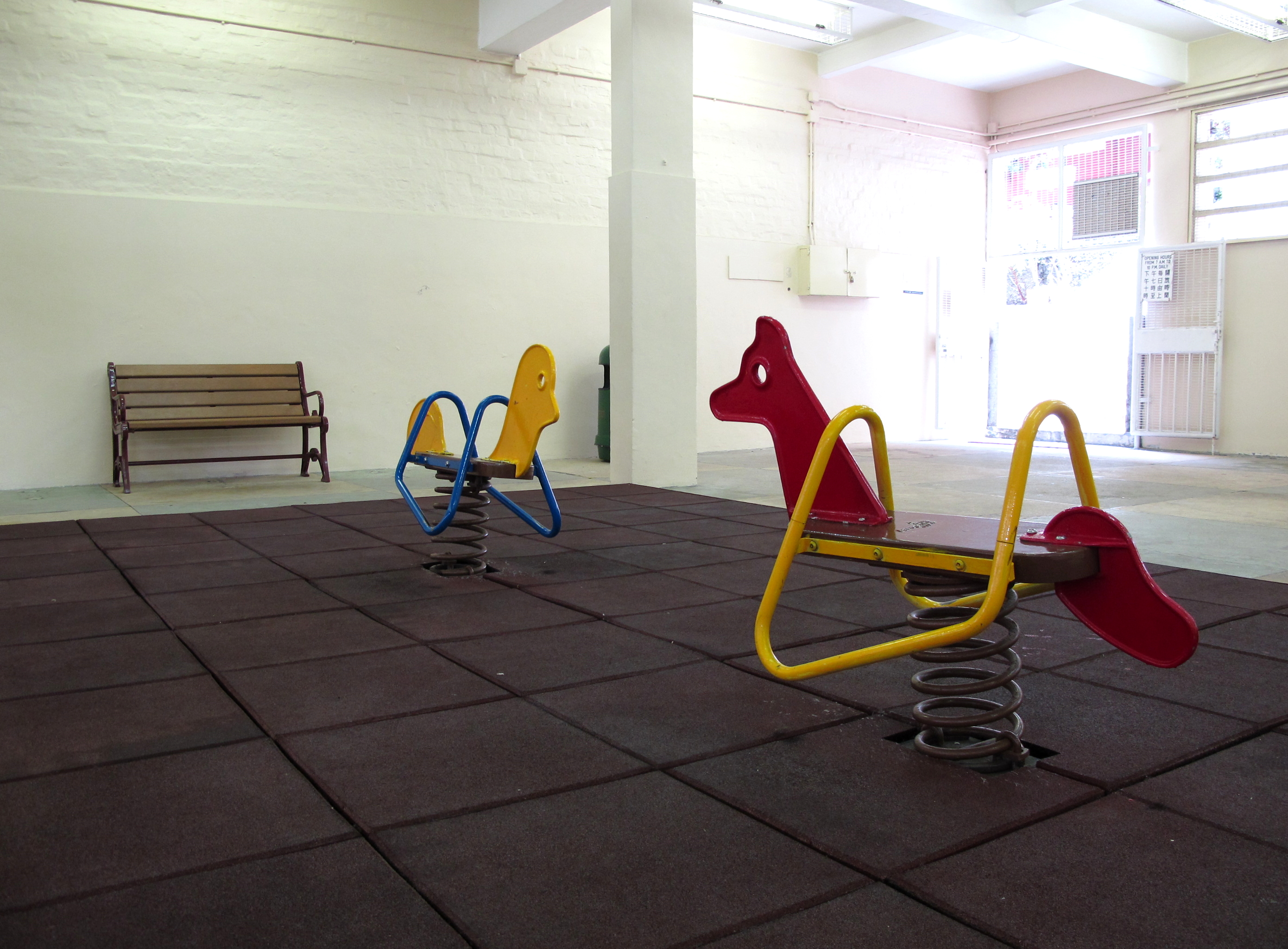 Bridges Street Market Playground